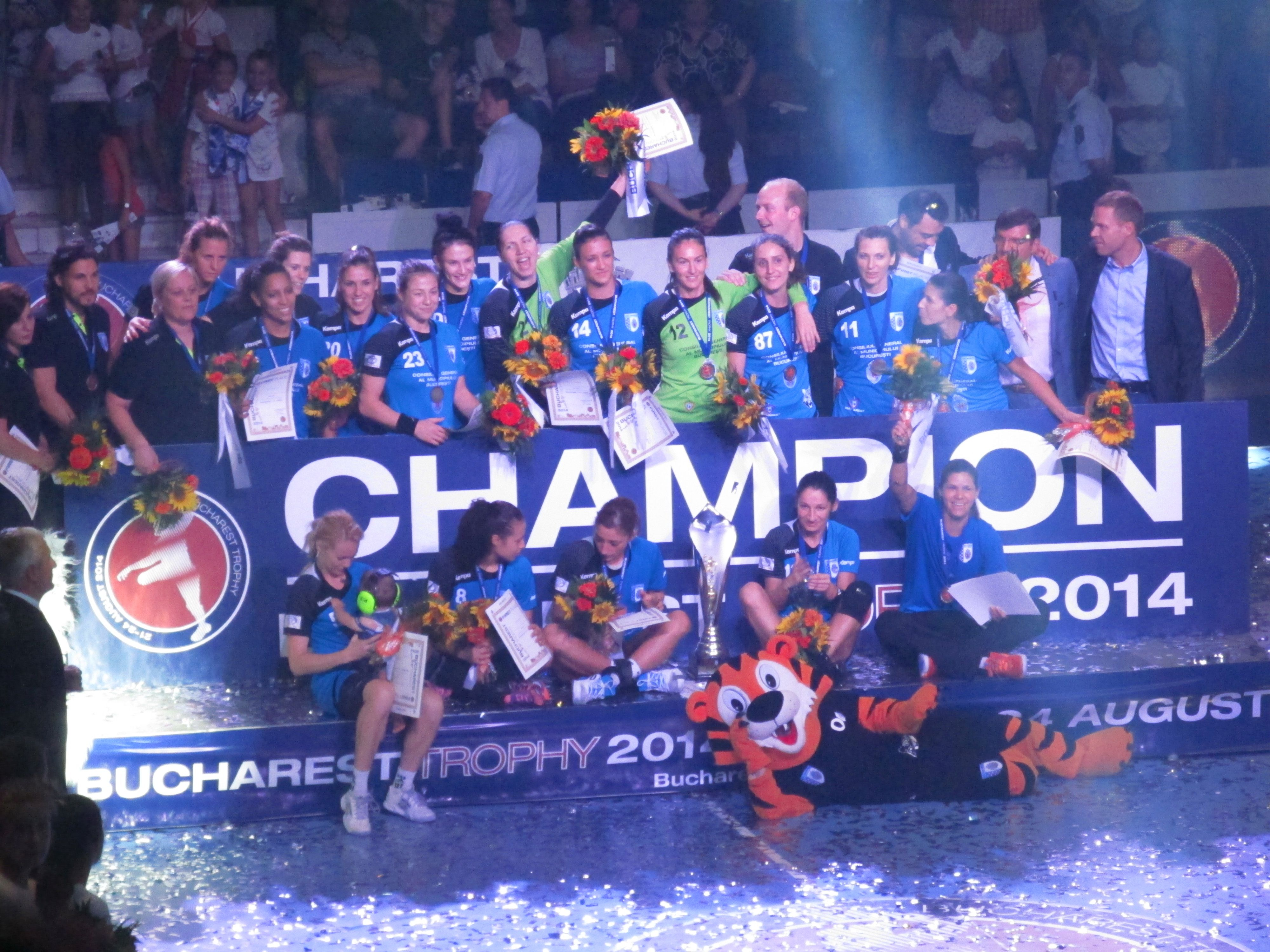 CSM Bucharest, winner of Bucharest Trophy 2014.